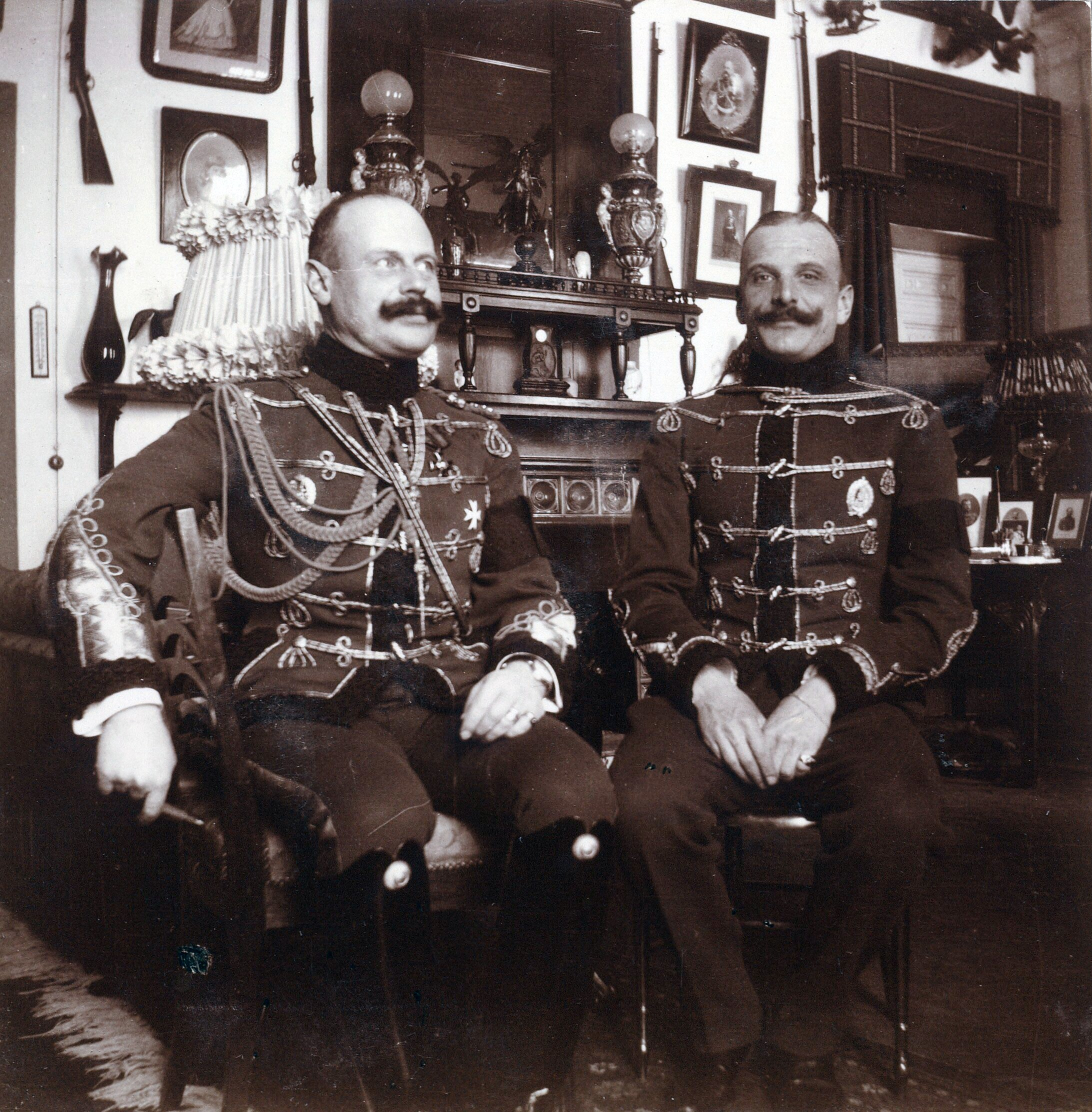 Tsarskoye Selo (Russia), General-mayor V.N. Voeykov and Rotmistr N.A. Sollogub.